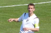 Made by User:Razvanflorian